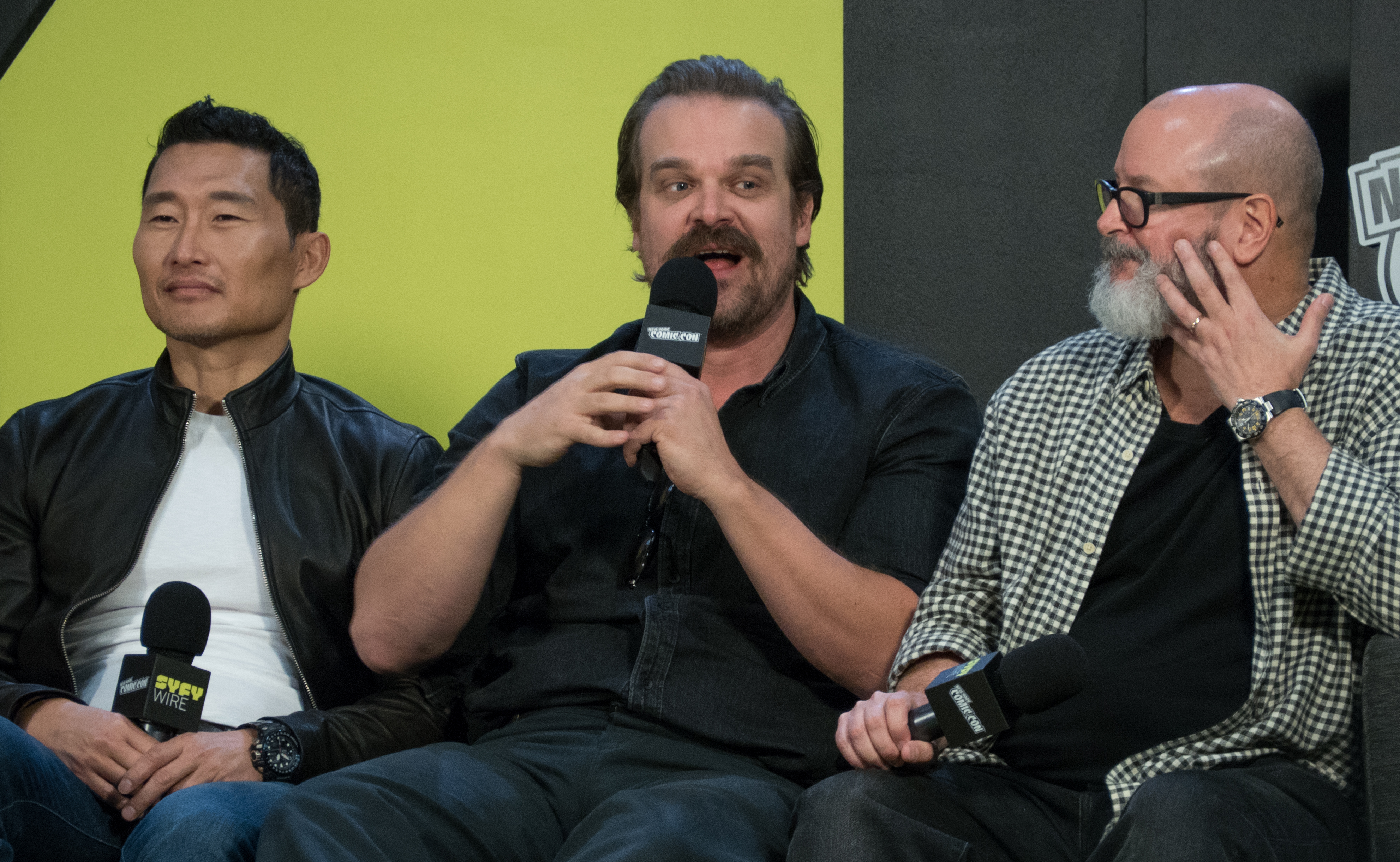 Daniel Dae Kim, David Harbour, and Mike Mignola on the Hellboy panel at New York Comic Con in October 2018.